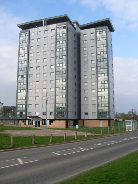 Bute Tower One of several recently developed high flats in this area.